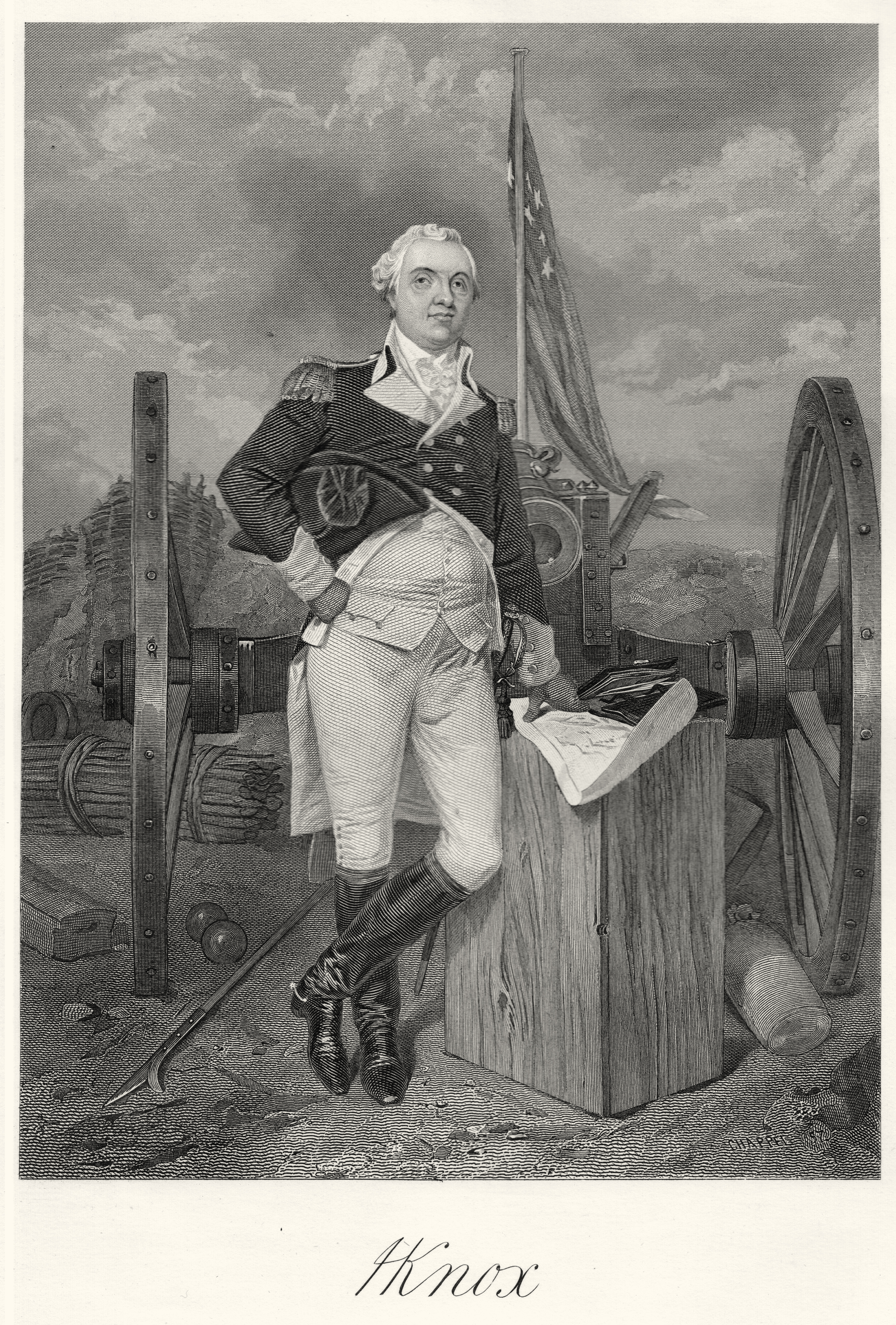 Portrait of Gen. Henry Knox (Steel engraving with signature)